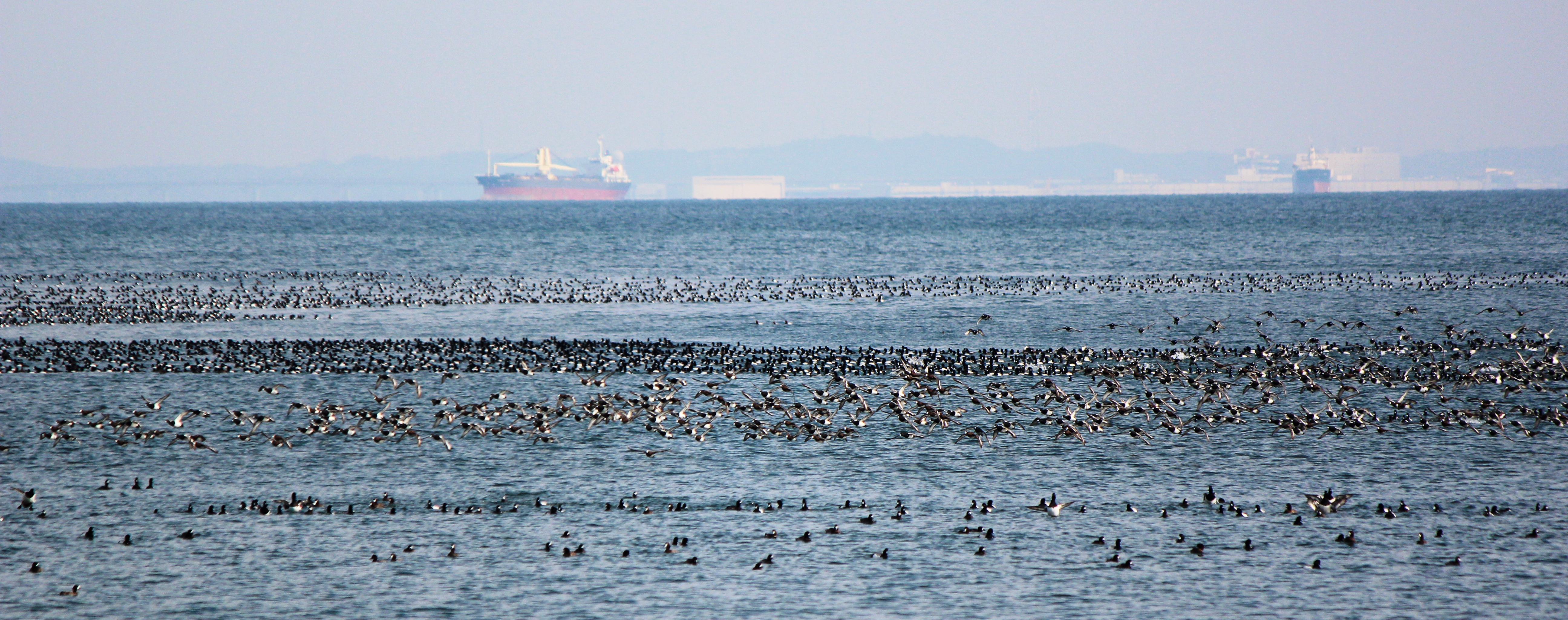 Flocks of Aythya marila mariloides in Ise Bay, Mie pref., Japan.